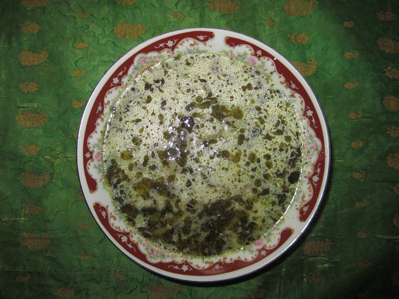 ashe jodough is a local food that cooked in arak city-iran